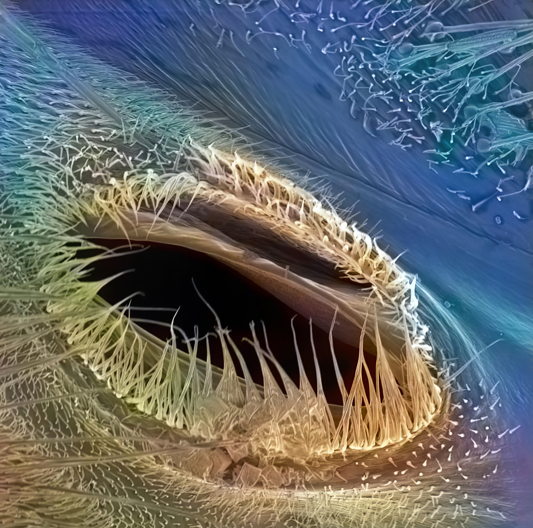 Respiratory system of a lion fly in an electron microscope